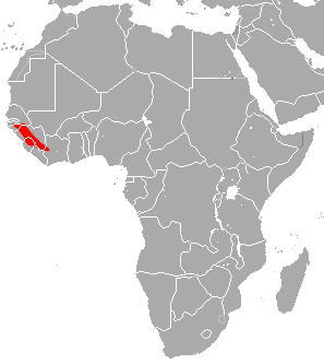 Guinean Horseshoe Bat (Rhinolophus guineensis) range